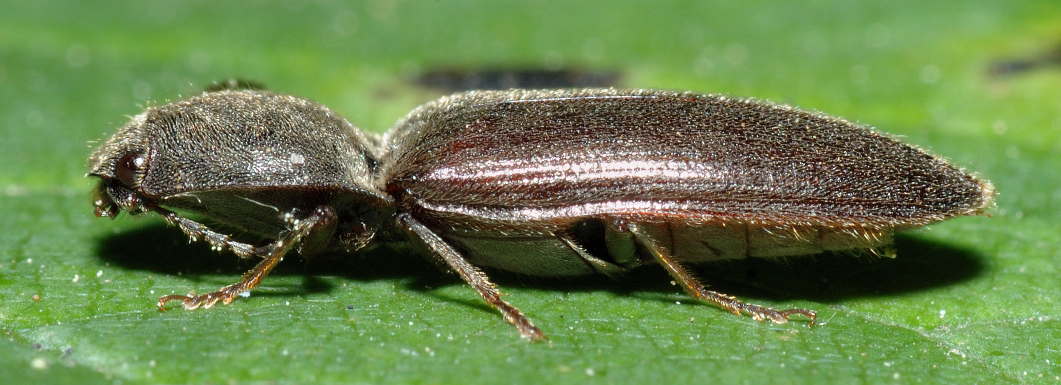 This image shows beetle of the species Athous haemorrhoidalis.